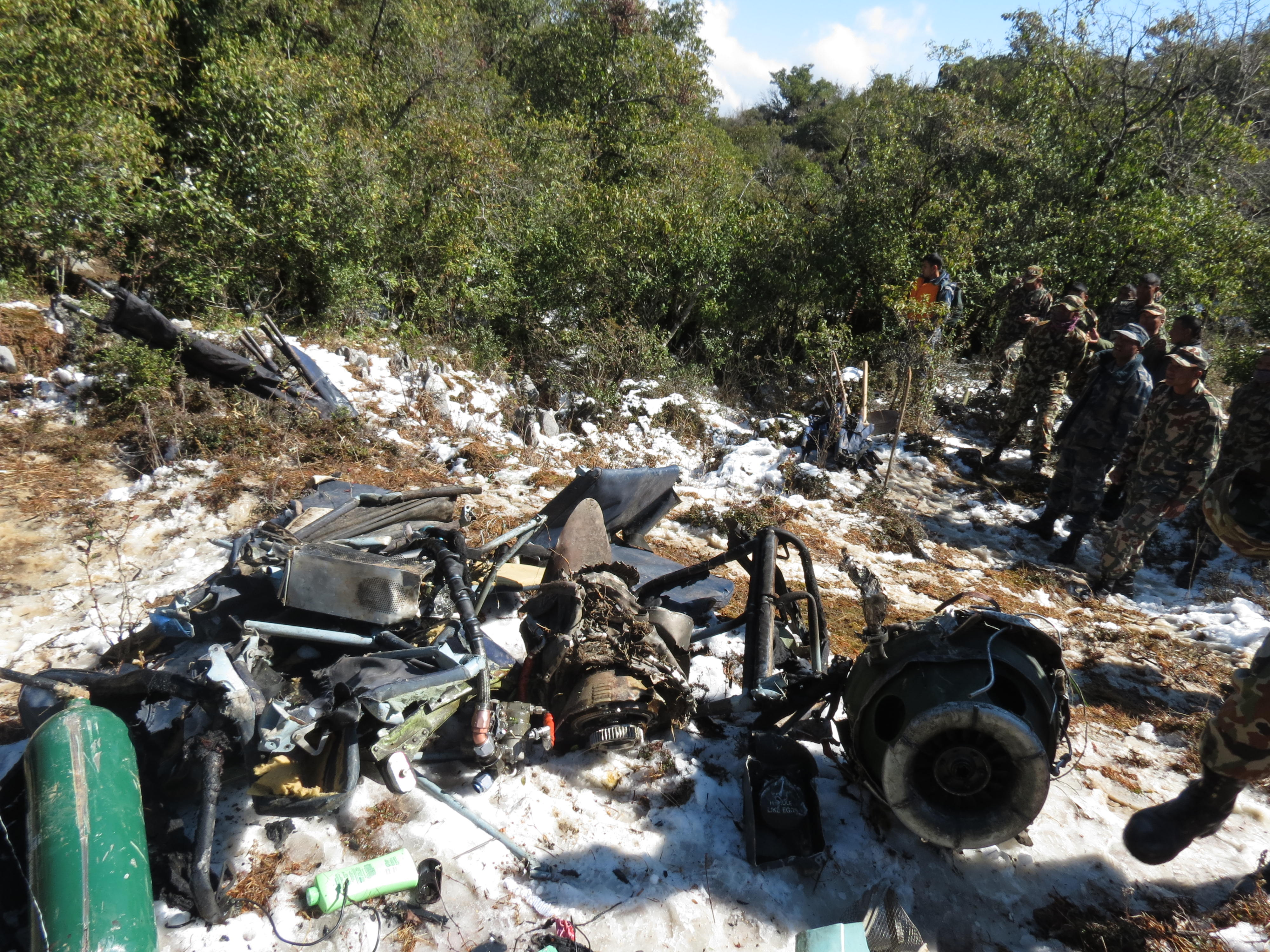 Accident site in Argakhachi District of Nepal.